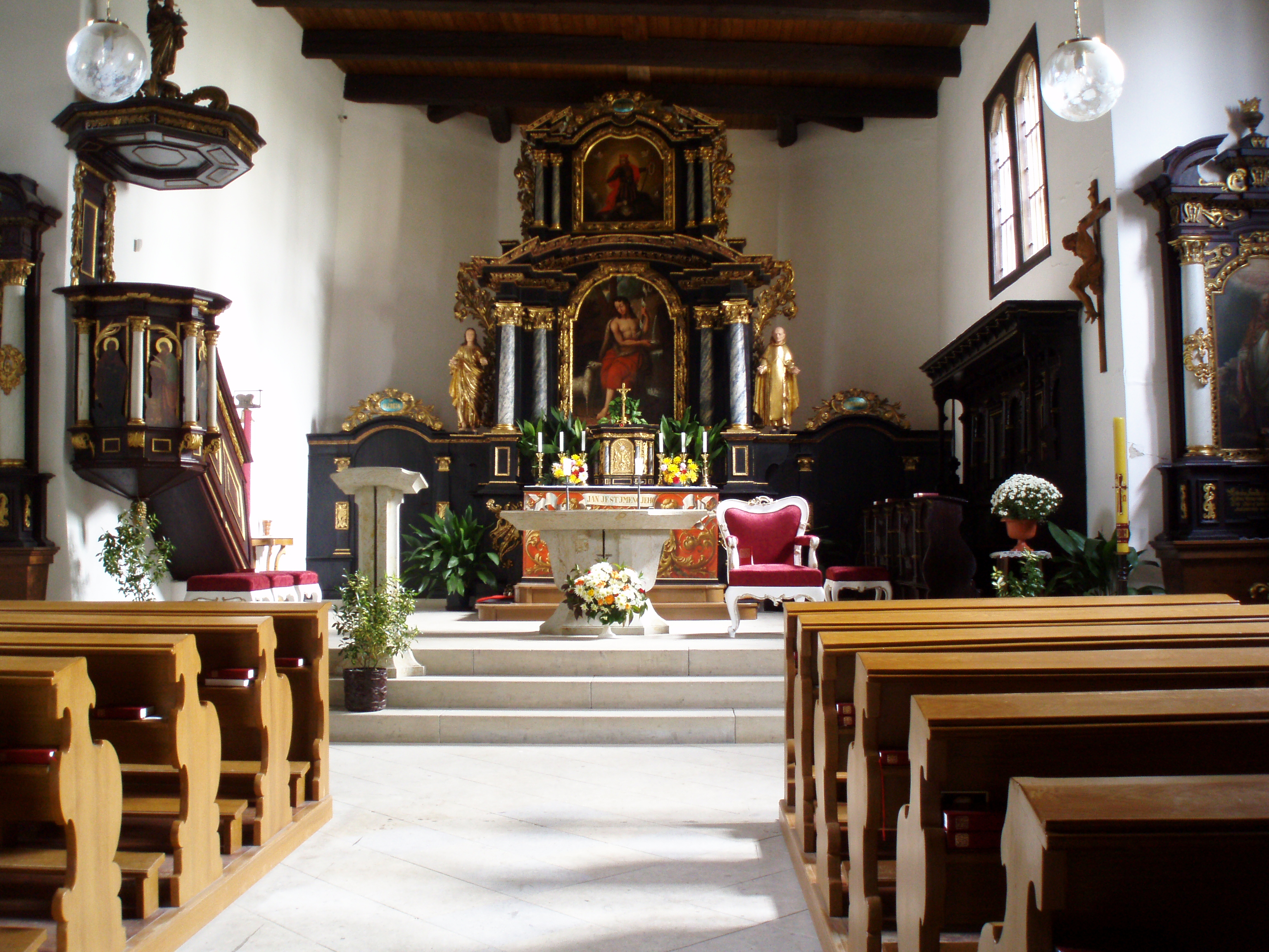 Church of St. John the Baptist (Hradec Králové, Czechia)